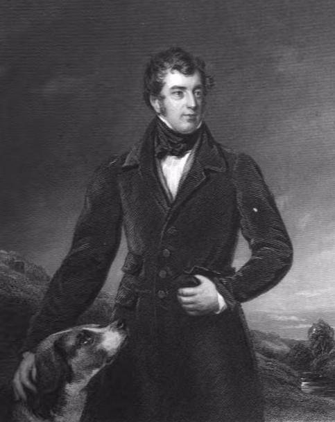 Portrait of Henry Reynolds-Moreton, 2nd Earl of Ducie (1802–1853), British politician and cattle breeder.